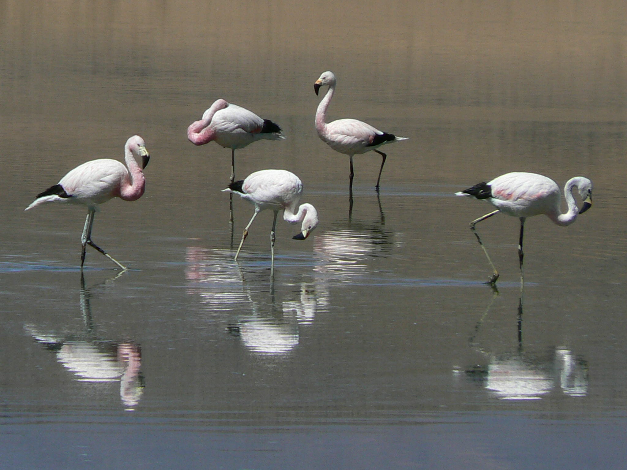 Andean Flamingos at Laguna Cañapa, a lake in the Potosí Department, Bolivia.